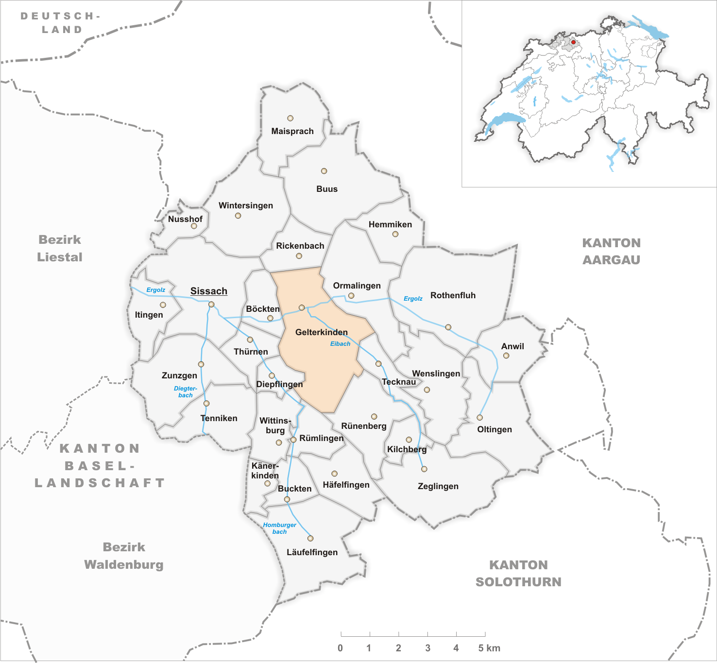 Municipality Gelterkinden